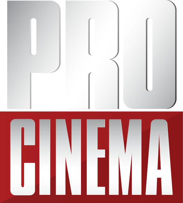 The logo of Pro Cinema for 2014-2017.